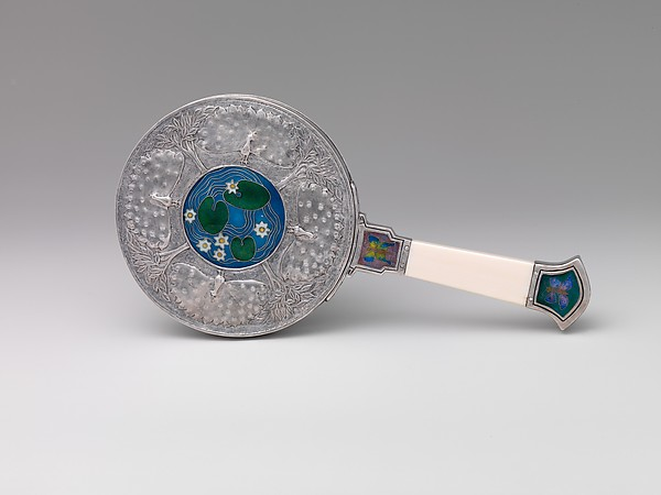 Eda Lord Dixon (American, 1876–1926)Hand mirror, ca. 1908American,Silver, ivory, enamel, and glass; 4 5/8 × 9 × 5/8 in. (11.7 × 22.9 × 1.6 cm)The Metropolitan Museum of Art, New York, Gift of Jacqueline Loewe Fowler, 2014 (2014.199.1)